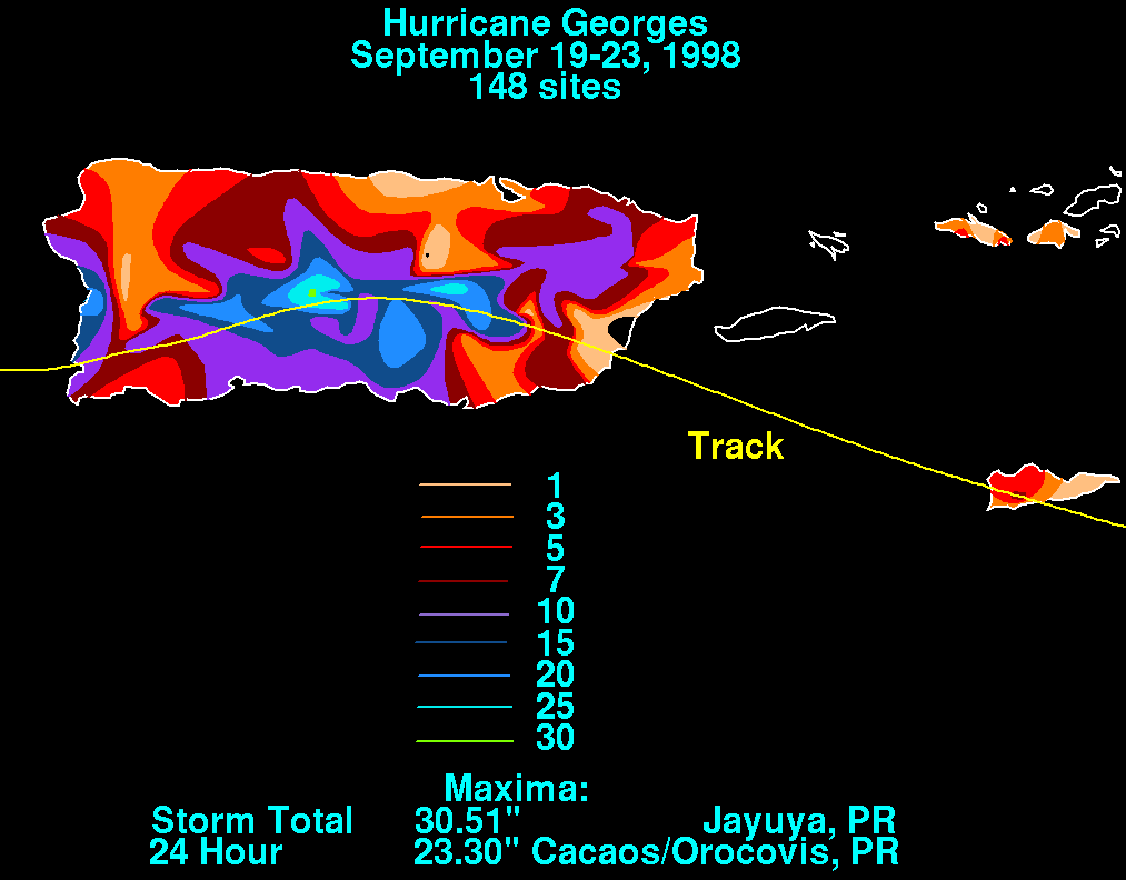 Storm total rainfall map of Hurricane Georges in Puerto Rico during September 1998.